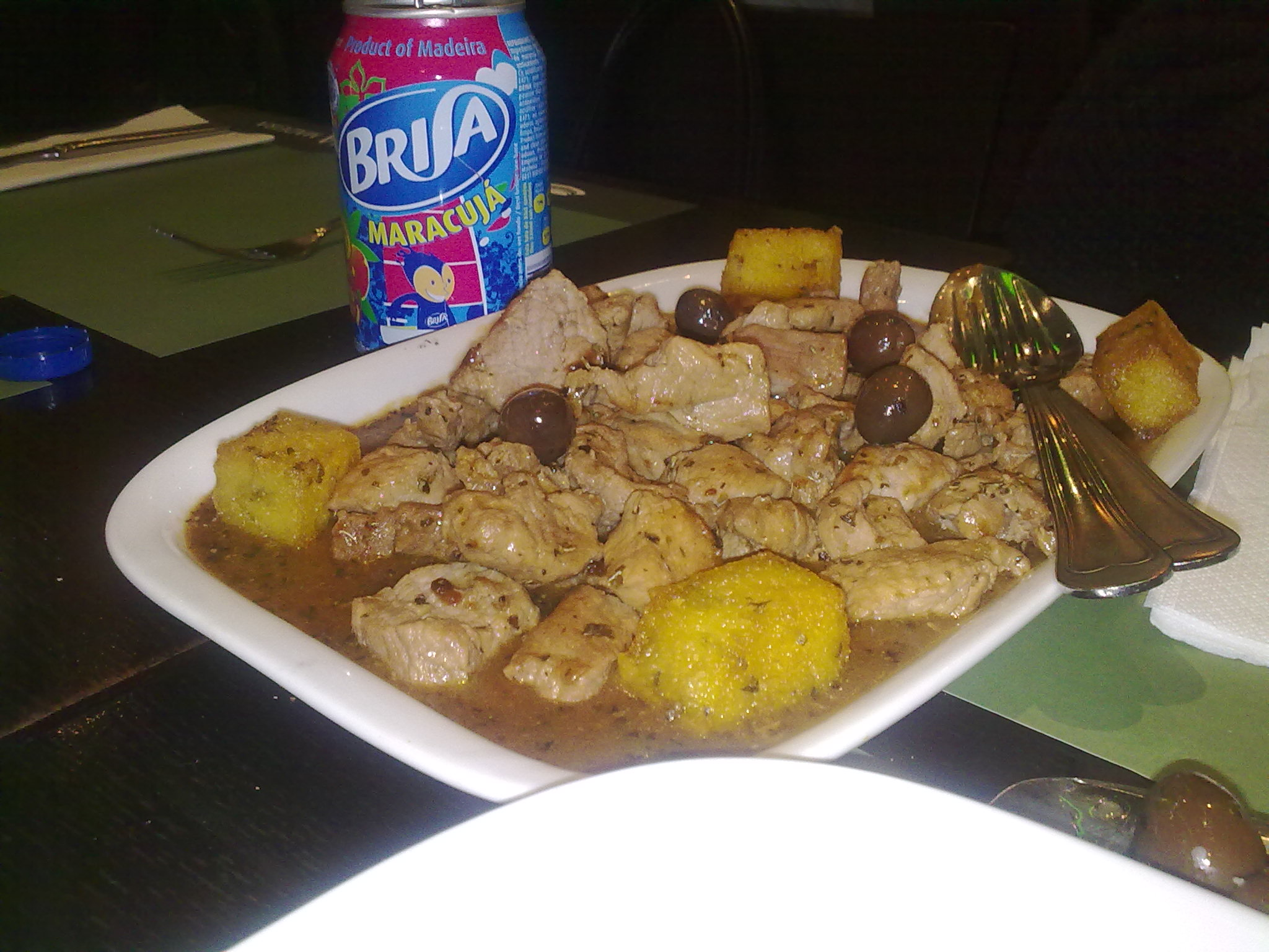 "Picado de porco", a typical dish from Madeira.